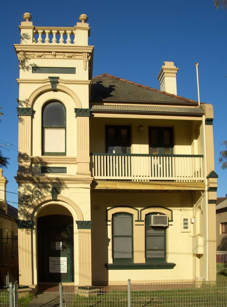 Italianate house, Marrickville, Sydney, Australia.